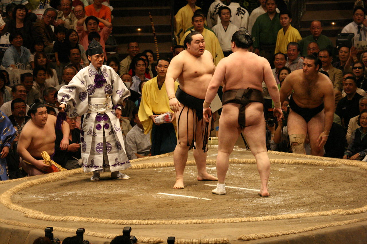 The last day (senshūraku) of the May 2008 tournament: Asashōryū and Hakuhō, both yokozuna glare at each other after the match.